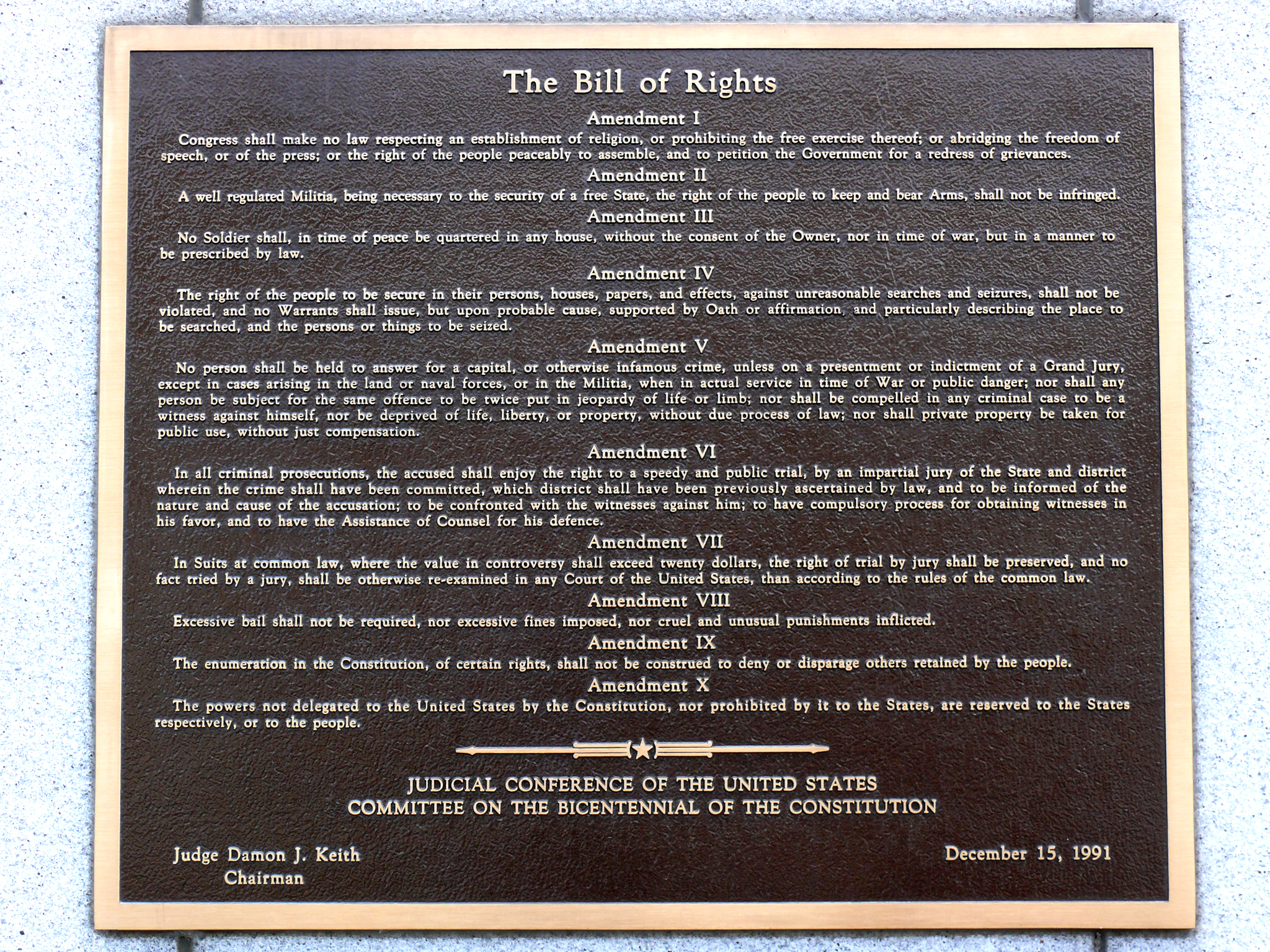 Bill of Rights Plaque